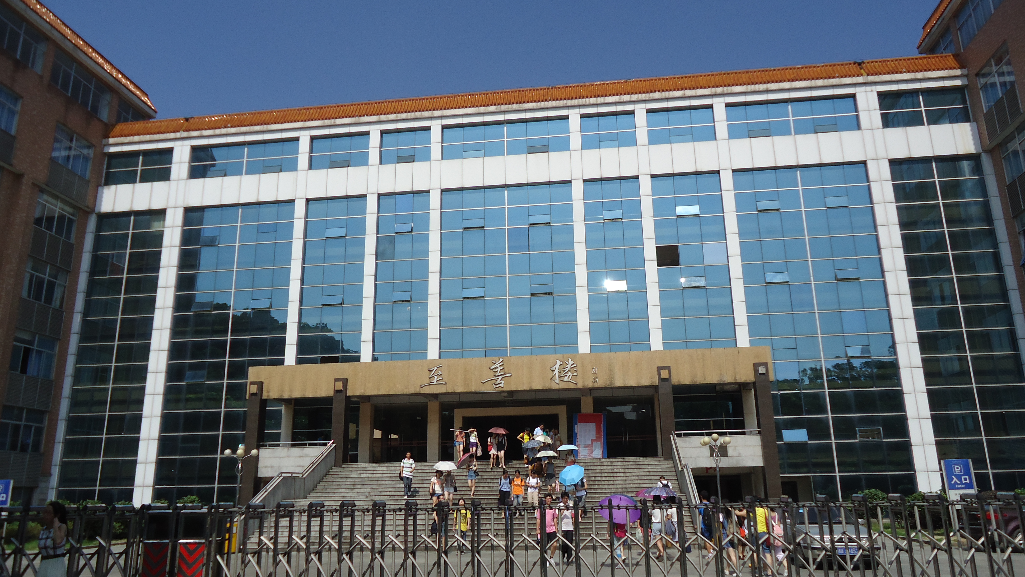 Hunan Normal University,founded in 1938, is a higher education institution located in Changsha, Hunan Province, People's Republic of China. The University is a national 211 Project university, one of the country's 100 key universities in the 21st century that enjoy priority in obtaining national funds.